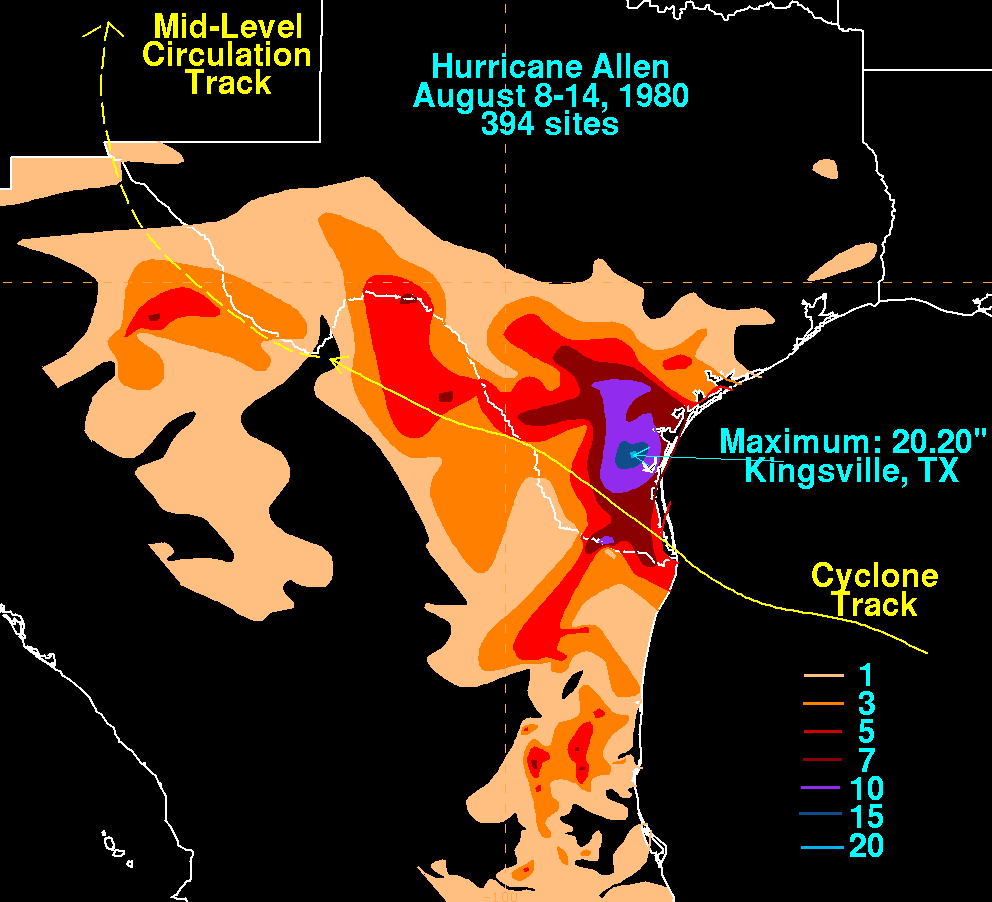 Rainfall produced by Hurricane Allen during August 1980.